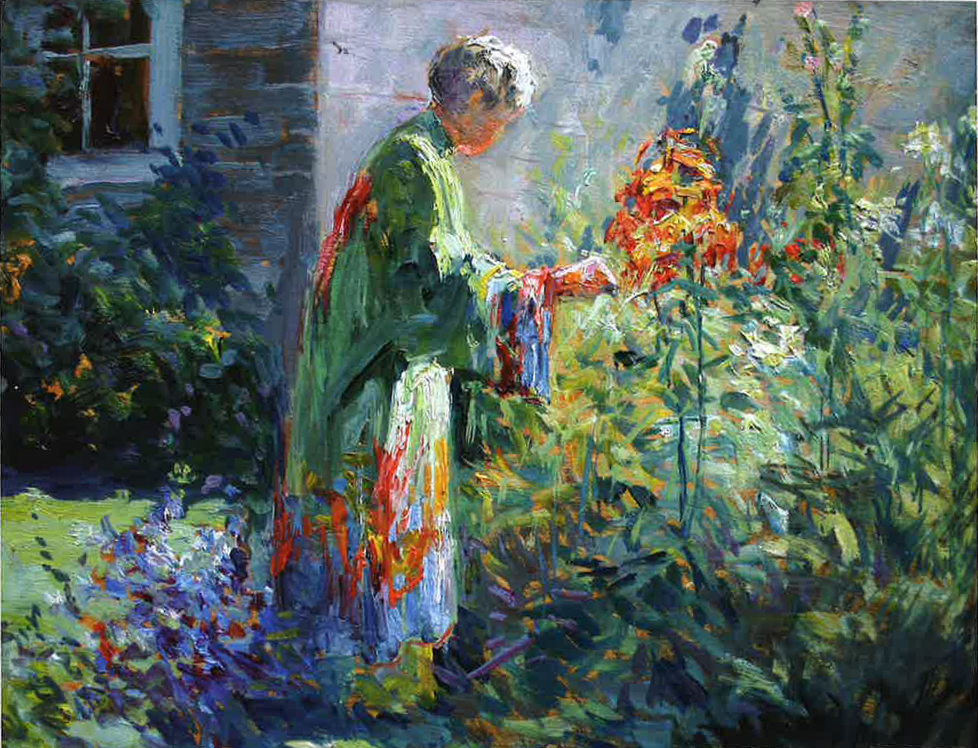 Woman wearing kimono in garden in front of house (believed to be Matilda Browne's house in Lyme, CT)